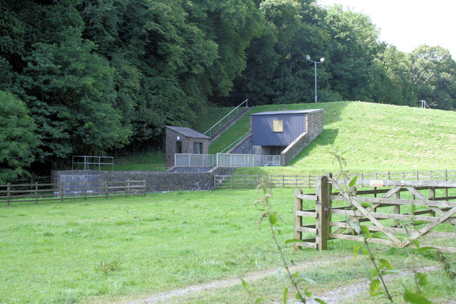 Holbeam Dam Holbeam Dam was built to protect Newton Abbot from the River Lemon flooding.